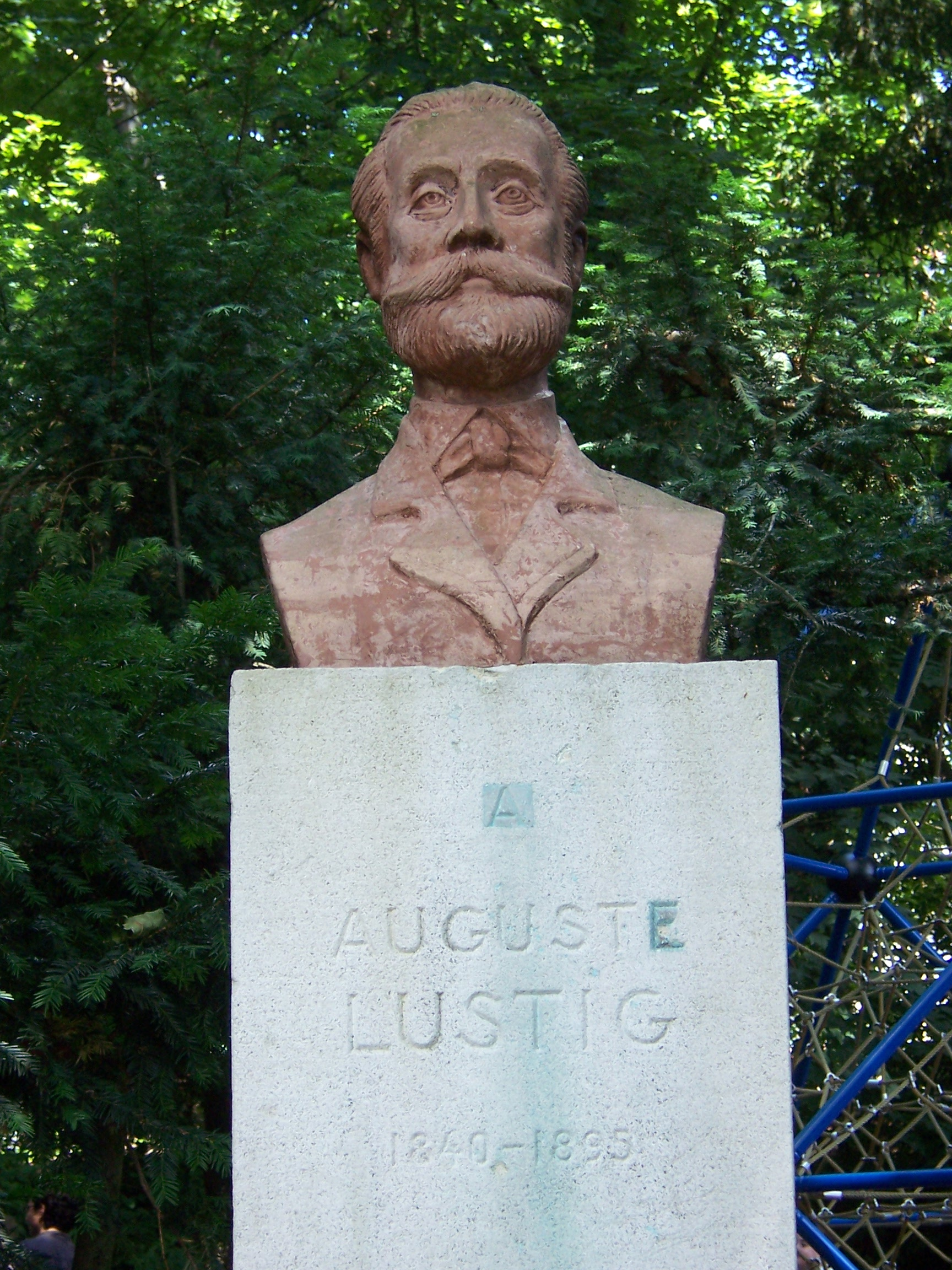 Statue of Auguste Lustig in the Steinbach public garden in Mulhouse (France).